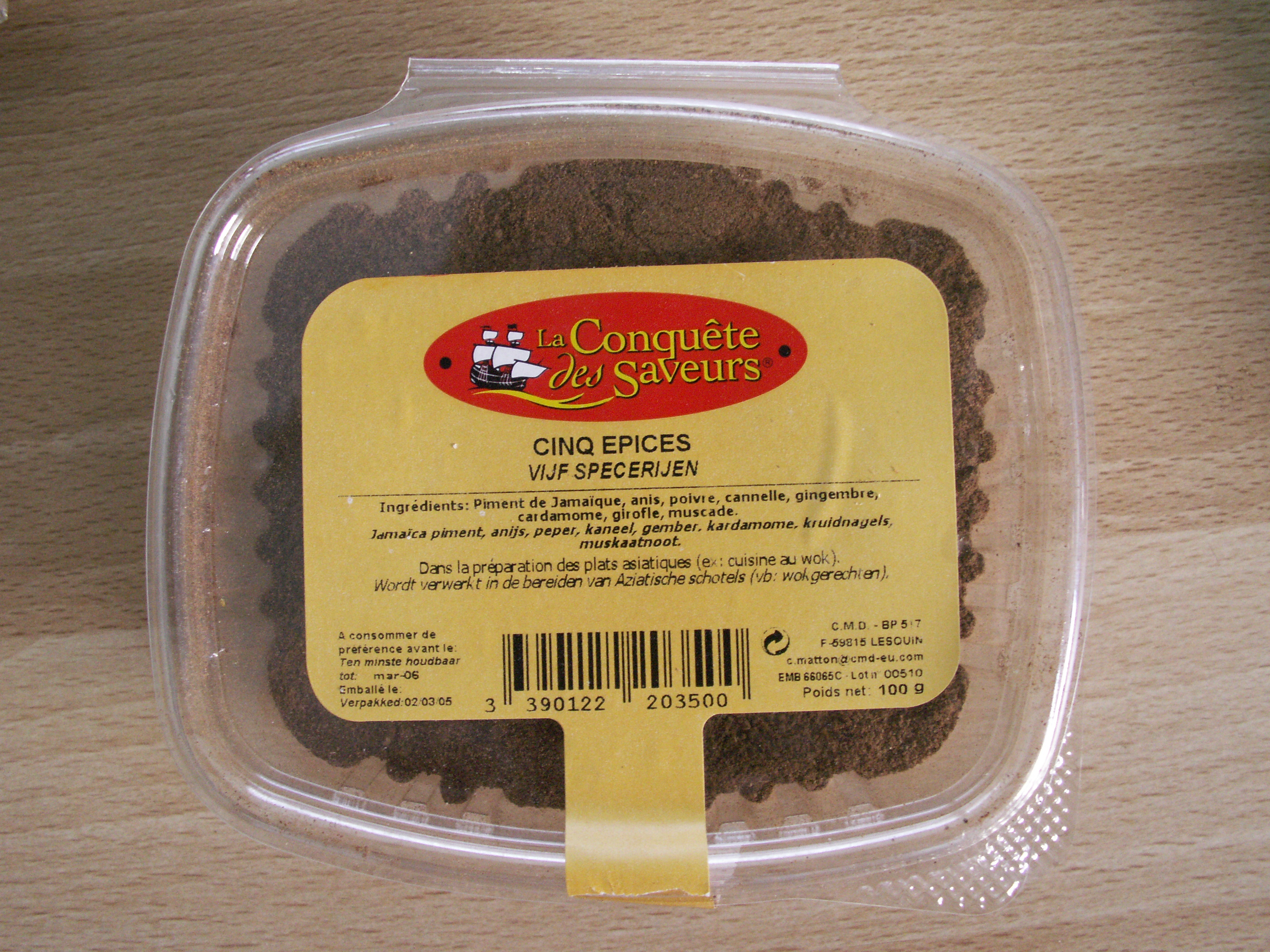 Five-spice powder